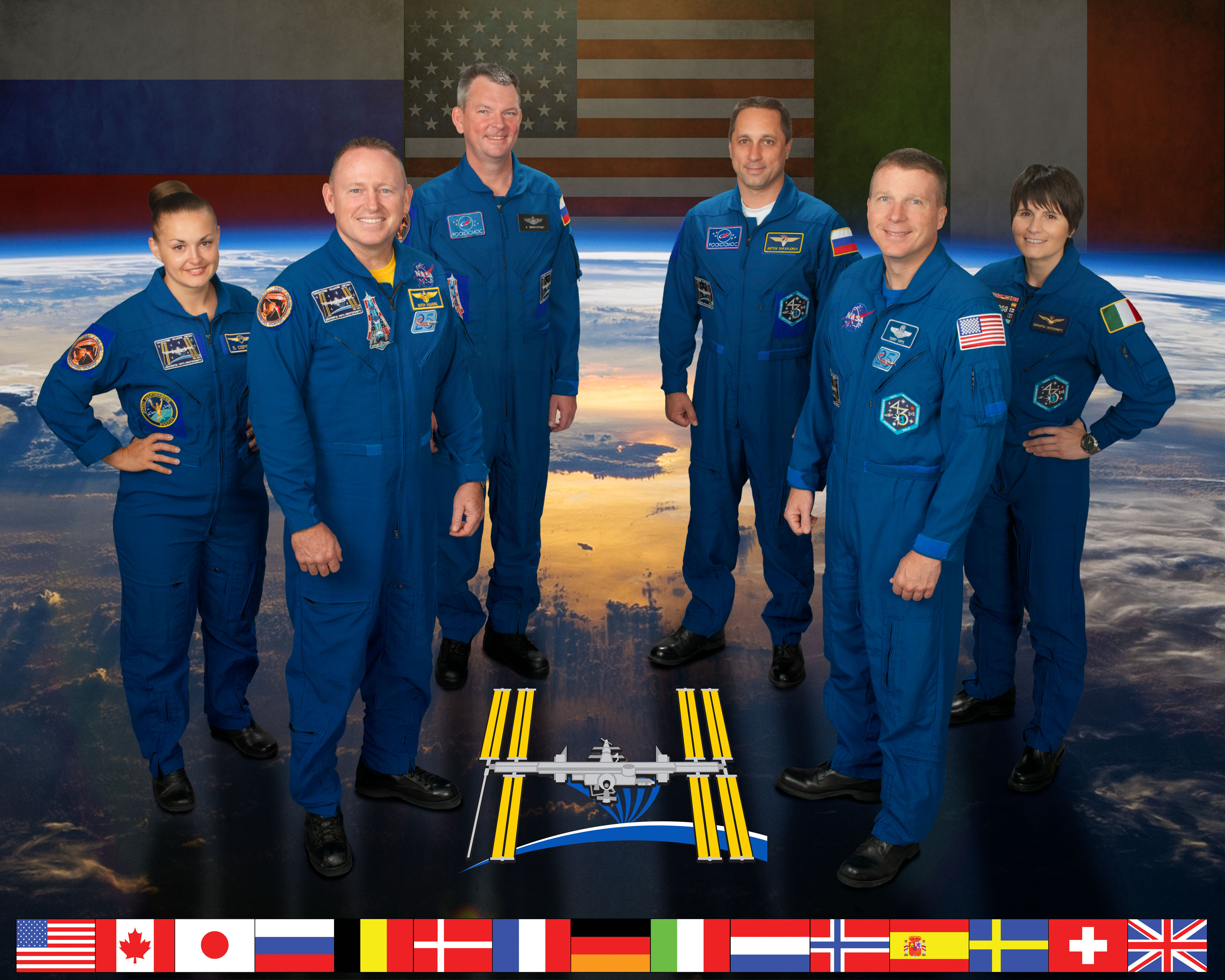 Expedition 42 crew members take a break from training at NASA's Johnson Space Center to pose for a crew portrait. Pictured on the front row are NASA astronauts Barry Wilmore (left), commander; and Terry Virts, flight engineer. Pictured from the left (back row) are Russian cosmonauts Elena Serova, Alexander Samoukutyaev and Anton Shkaplerov and European Space Agency astronaut Samantha Cristoforetti, all flight engineers.